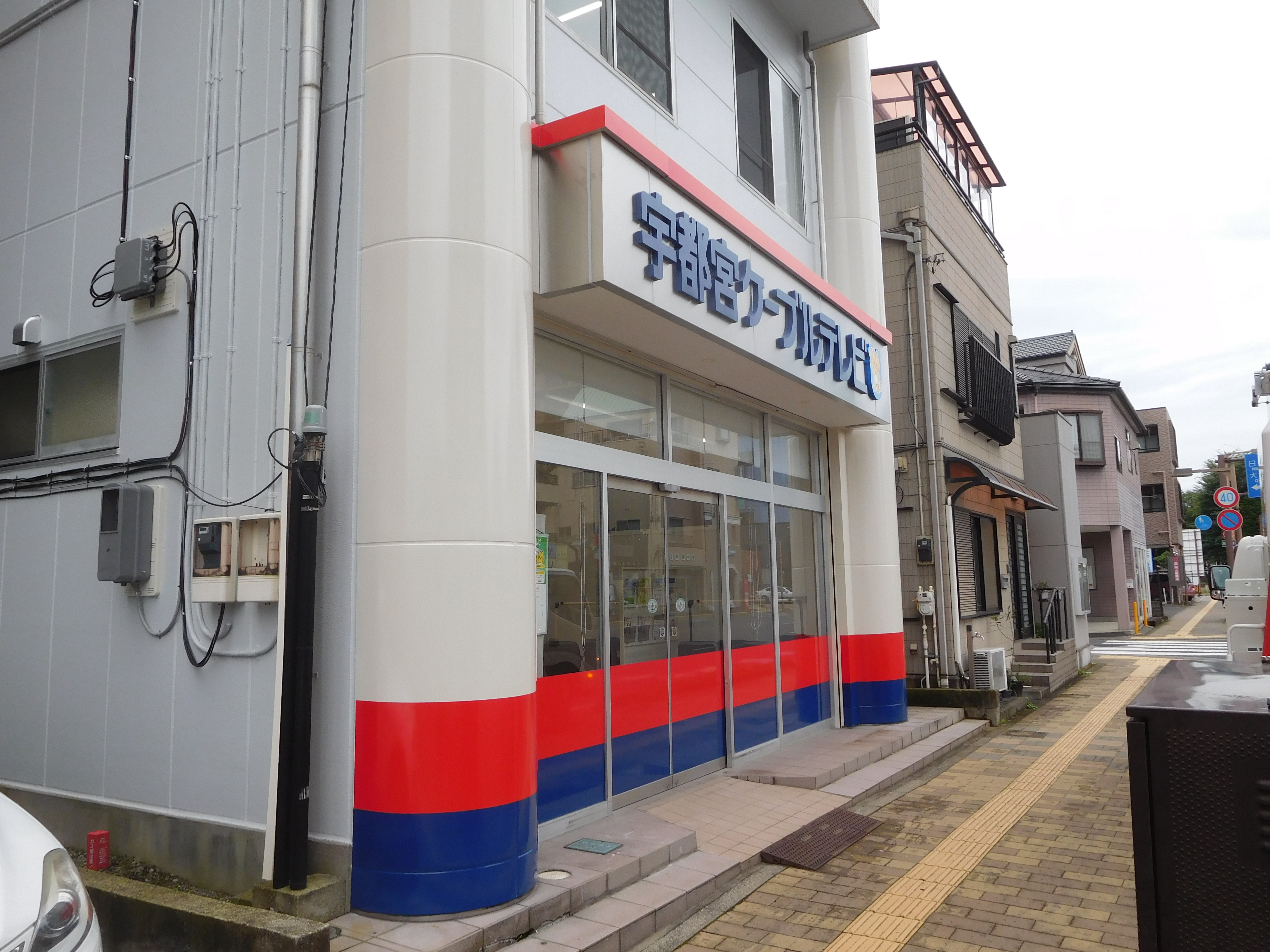 This is the headquarters of Utsunomiya cable television in Utsunomiya, Tochigi, Japan.